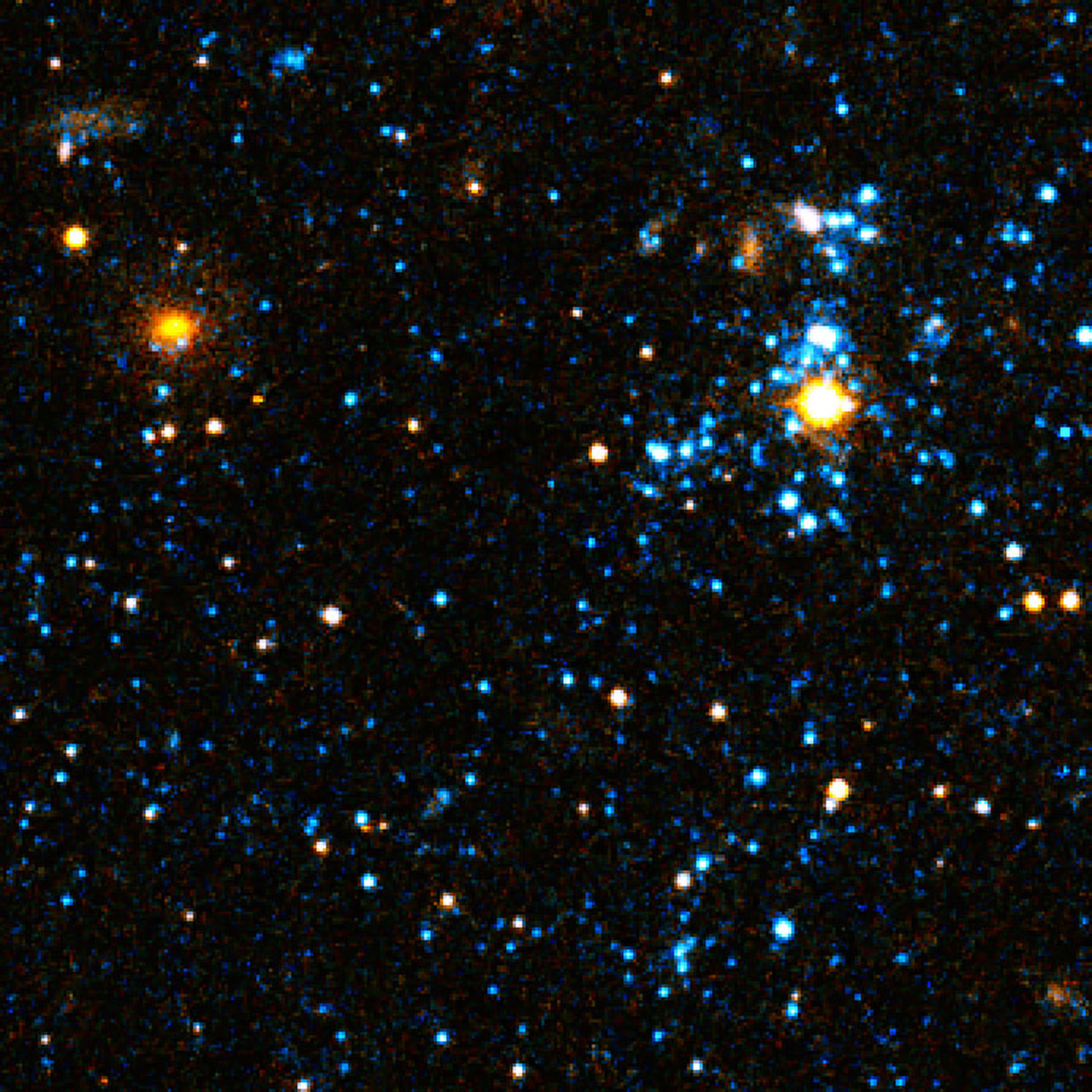 Hubble Space Telescope's powerful vision has resolved strange objects nicknamed "blue blobs" and found them to be brilliant blue clusters of stars born in the swirls and eddies of a galactic smashup 200 million years ago. Such "blue blobs" — weighing tens of thousands of solar masses — have never been seen in detail before in such sparse locations, say researchers. The "blue blobs" are found along a wispy bridge of gas strung among three colliding galaxies, M81, M82, and NGC 3077, residing about 12 million light-years away from Earth. This is not the place astronomers expect to find star clusters, because the gas filaments were considered too thin to accumulate enough material to actually build these many stars. The star clusters in this diffuse structure might have formed from gas collisions and subsequent turbulence, which enhanced locally the density of the gas streams. Galaxy collisions were much more frequent in the early universe, so "blue blobs" should have been common. After the stars burned out or exploded, the heavier elements forged in their nuclear furnaces would have been ejected to enrich intergalactic space.